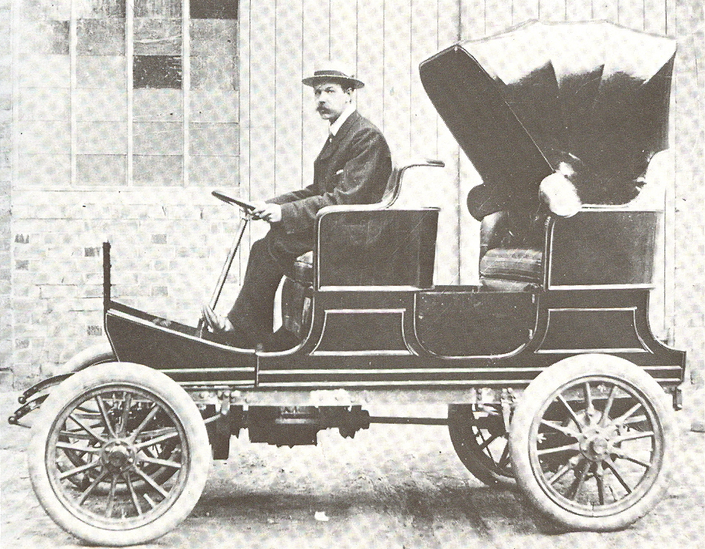 1903 Standard 6 hp 'Motor Victoria'